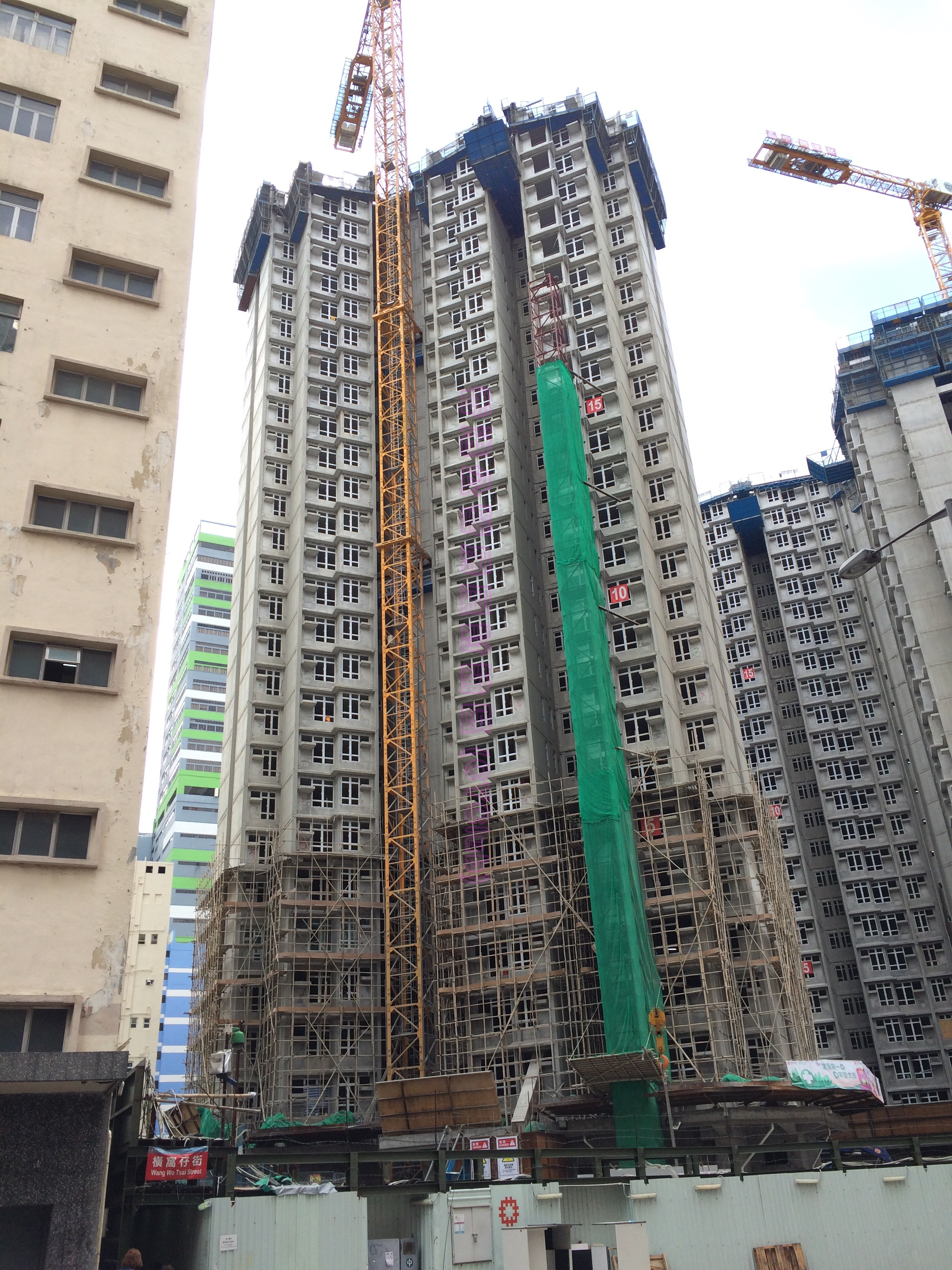 This is my own photo.